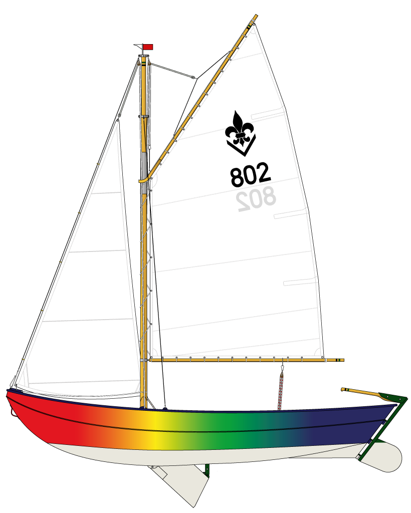 Picture of a Scouting Lelievlet